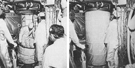 "Provisions were made so that each Skylab astronaut could take a shower every week. MSFC designed and built a shower assembly to be stored as a compact unit in the crew quarters area of the workshop. At the left is a demonstration of the manner in which an astronaut would step inside a ring mounted on the floor and raise the 109-cm-diameter hoop to form the shower area. The extended curtain is then attached to the ceiling (right), and the shower is ready for use. " SP-4011 Skylab: A Chronology